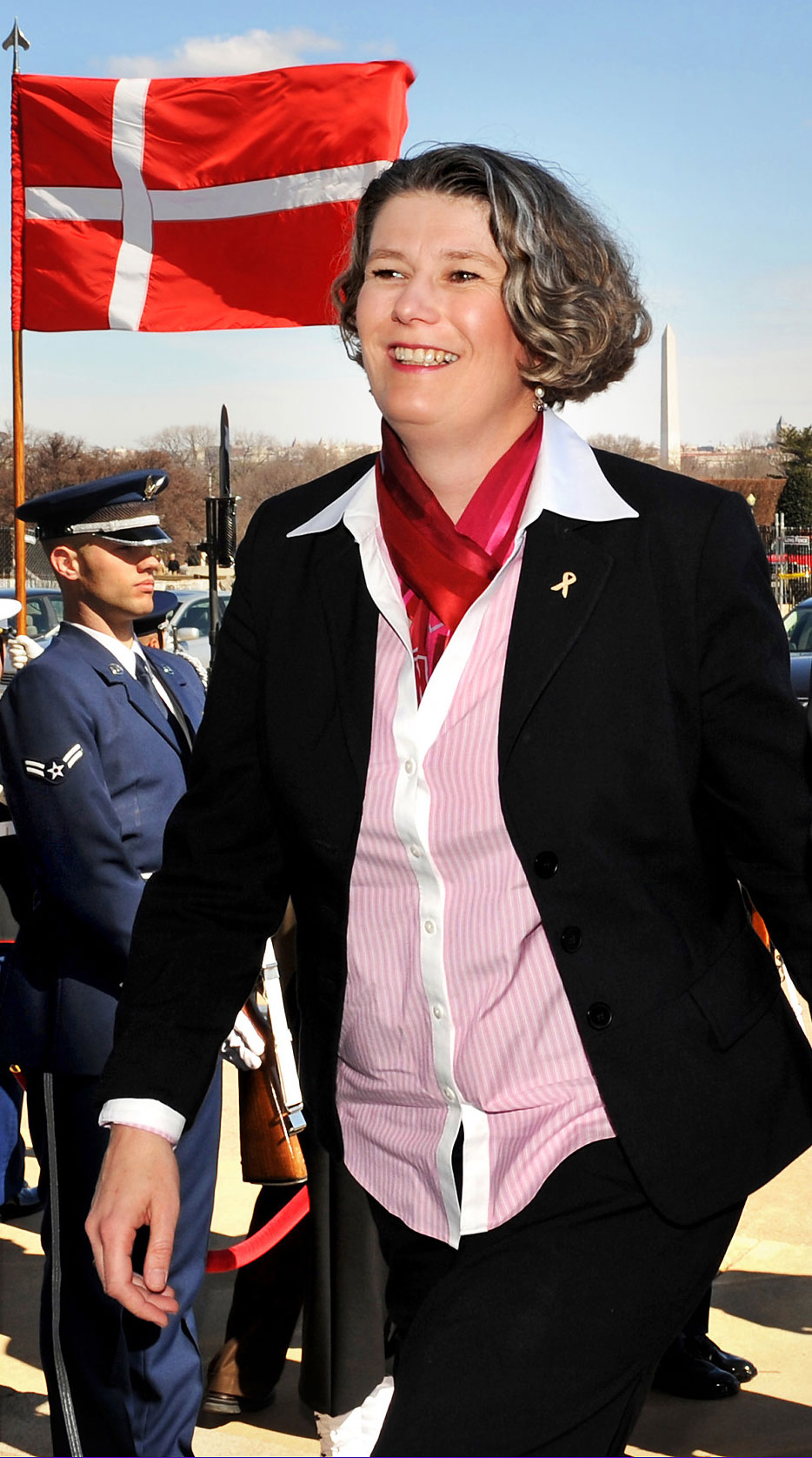 Danish Minister of Defense Gitte Lillelund Bech on her way through an honor cordon into the Pentagon, March 4, 2010.